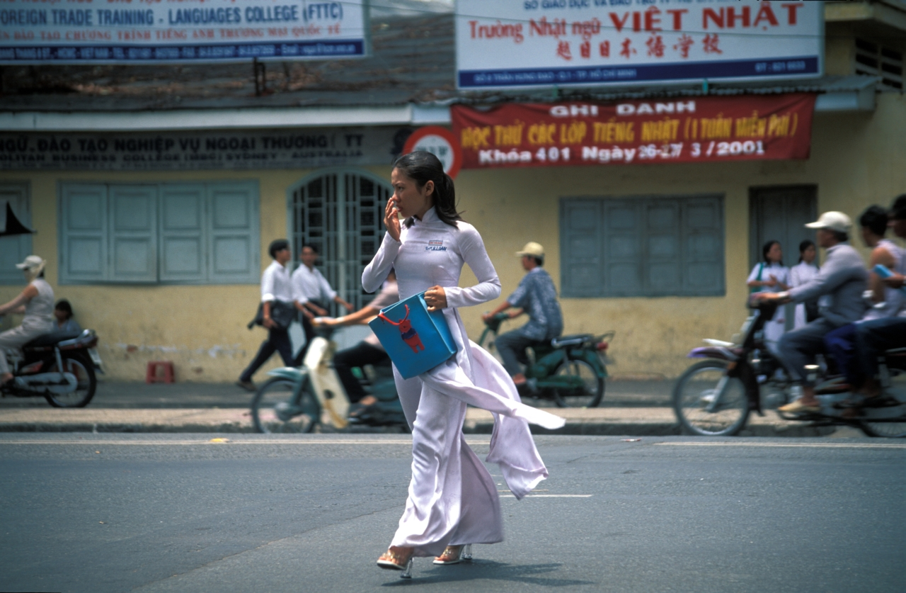 Student walk across the street in Ho Chi Minh City, Vietnam